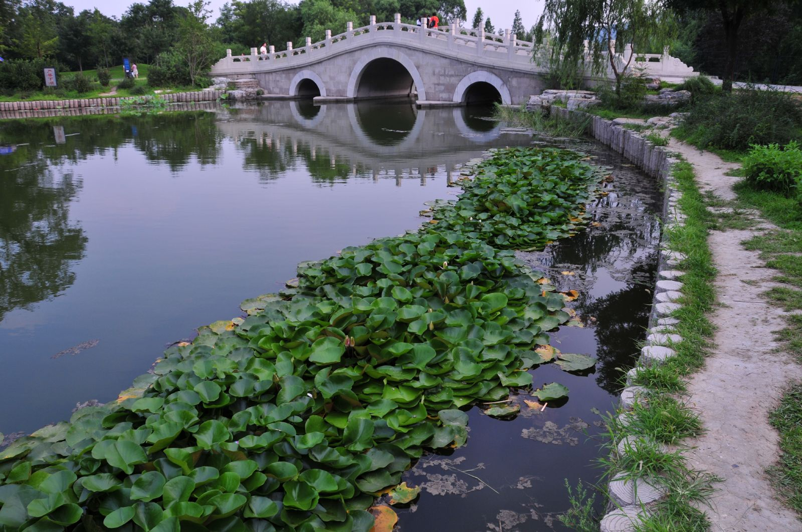 The Beijing Botanical Garden